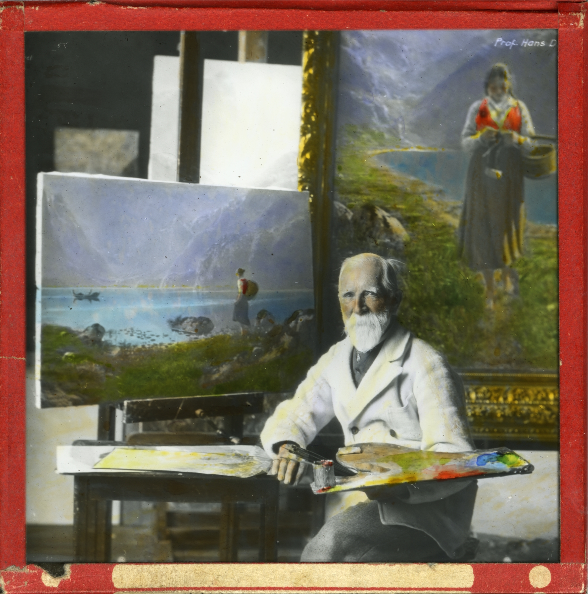 Håndkolorert lysbilde. Portrett av maleren Hans Dahl. Dahl sitter med palett og pensel i hånd foran et påbegynt maleri.